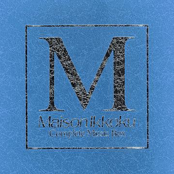 Cover of the Maison Ikkoku Complete Music Box, from Kitty Records. Eight CDs: KTCR-9010/9015, KC-0070/0071.